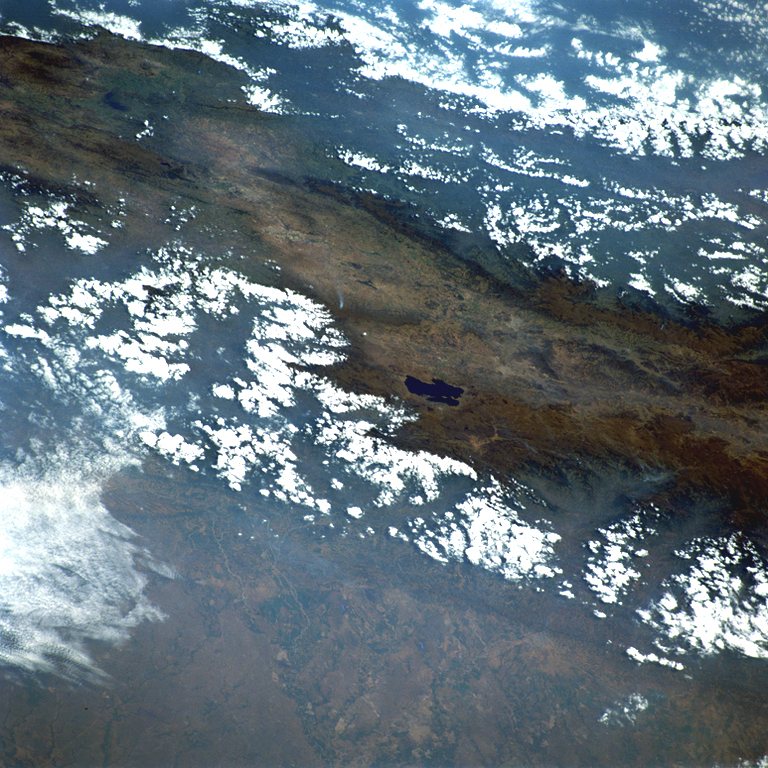 American cordillera (eastern) of the Andes in Colombia